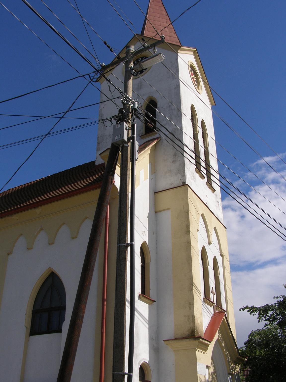 The Sarlós Boldogasszony Church in Szakonyfalu